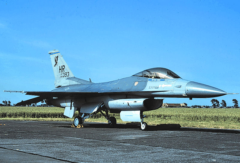 10th Tactical Fighter Squadron - General Dynamics F-16C Block 25F Fighting Falcon - 84-1393